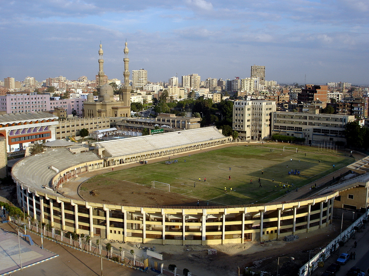 Egypt, University Stadium in Zagazig, November 2006